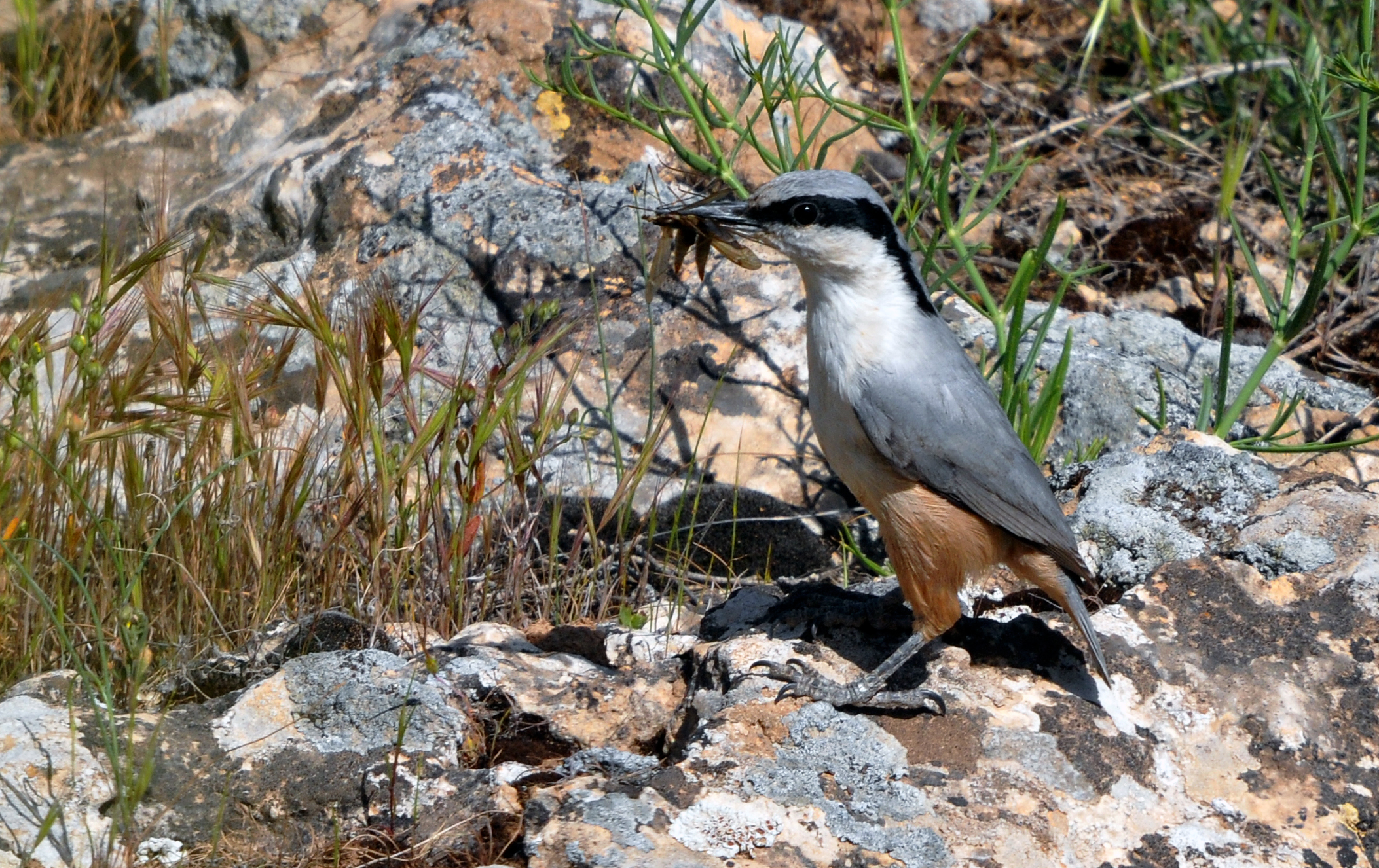 Eastern Rock Nuthatch Sitta tephronota, Savur, Turkey Kurdî: Tahtseyok